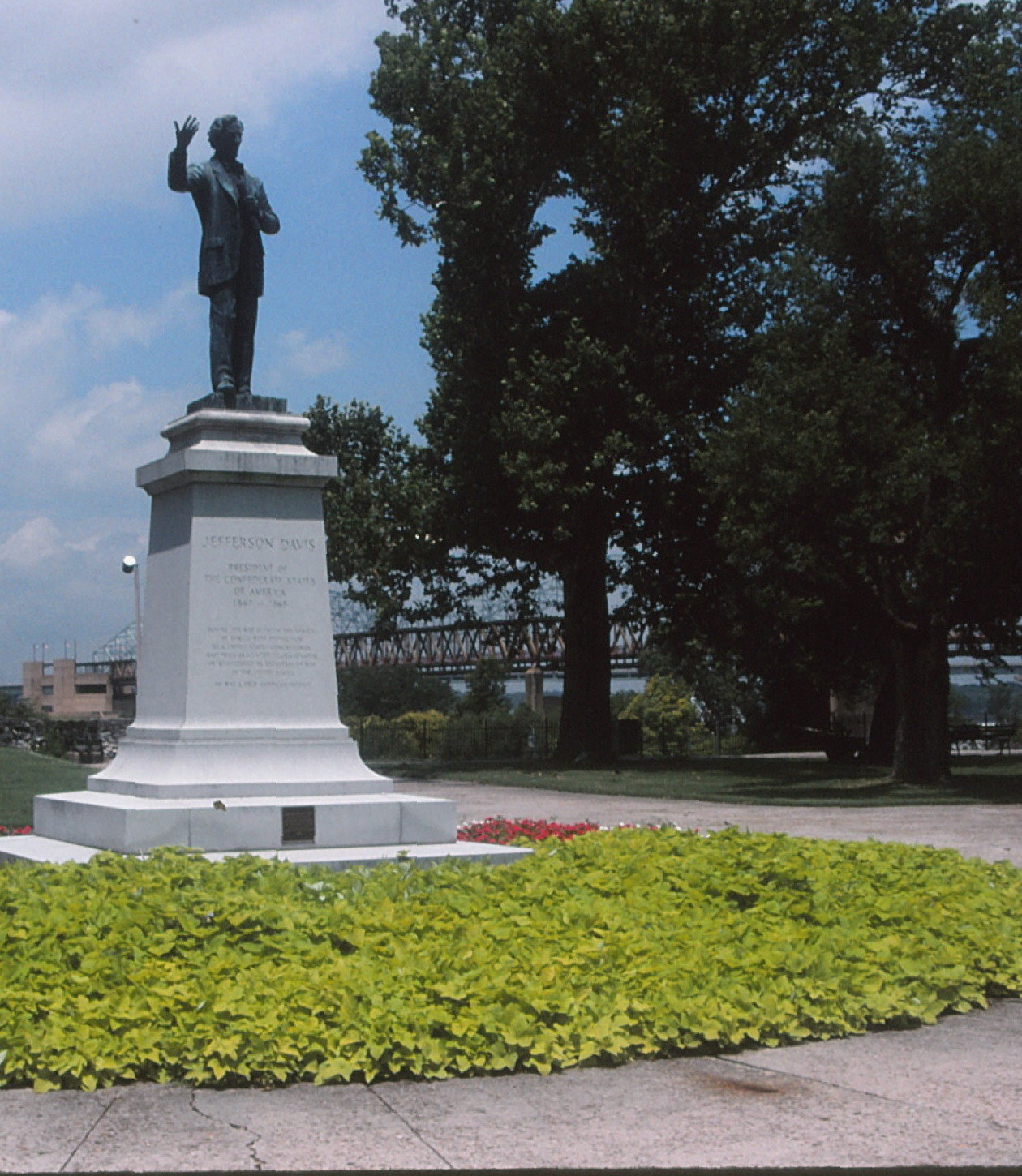 Park with statue of Jefferson Davis, Confederate Park, Memphis, TN, USA